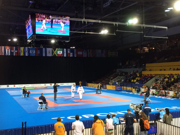 The Karate venue of the 2015 Pan American Games in Toronto, Canada.